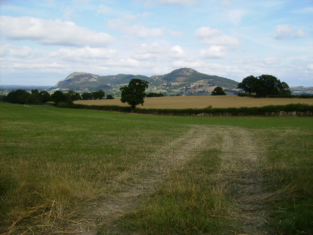 Farmland with view to Criggion and Rodney's Pillar.